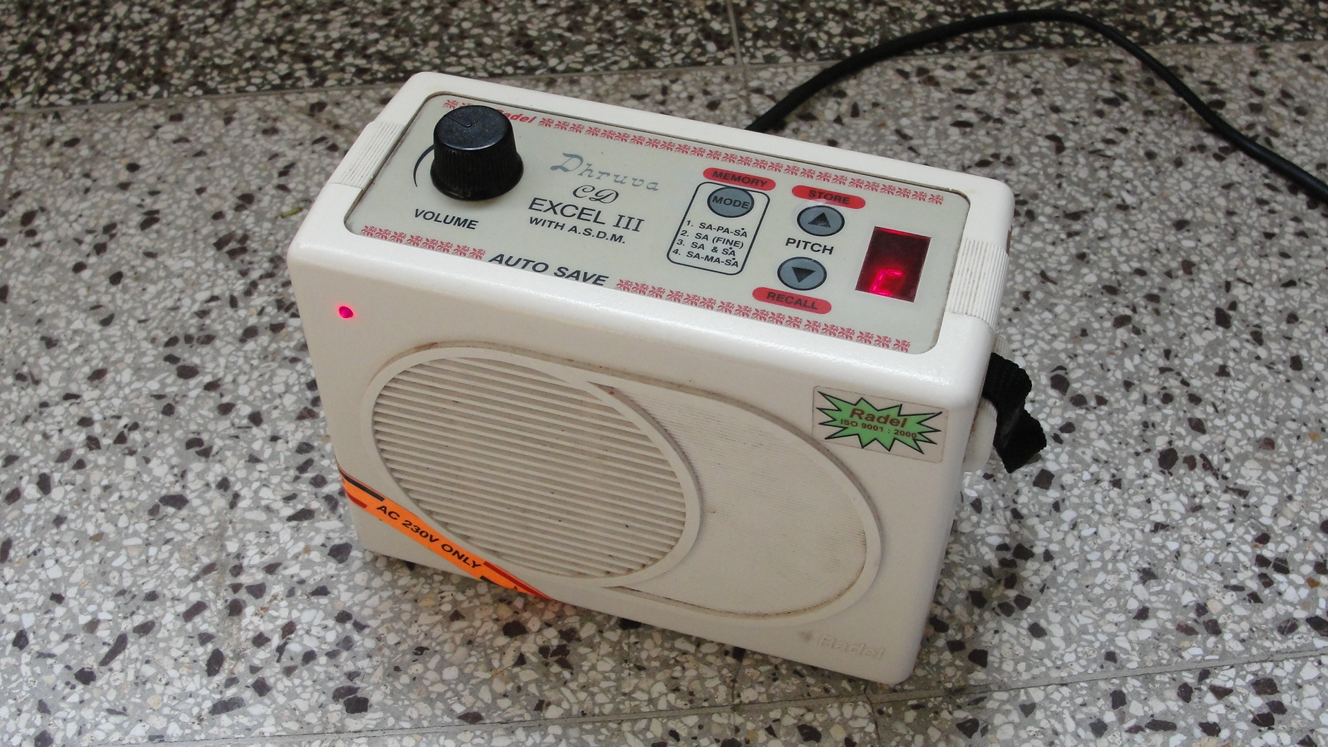 An depiction of electronic shruti box